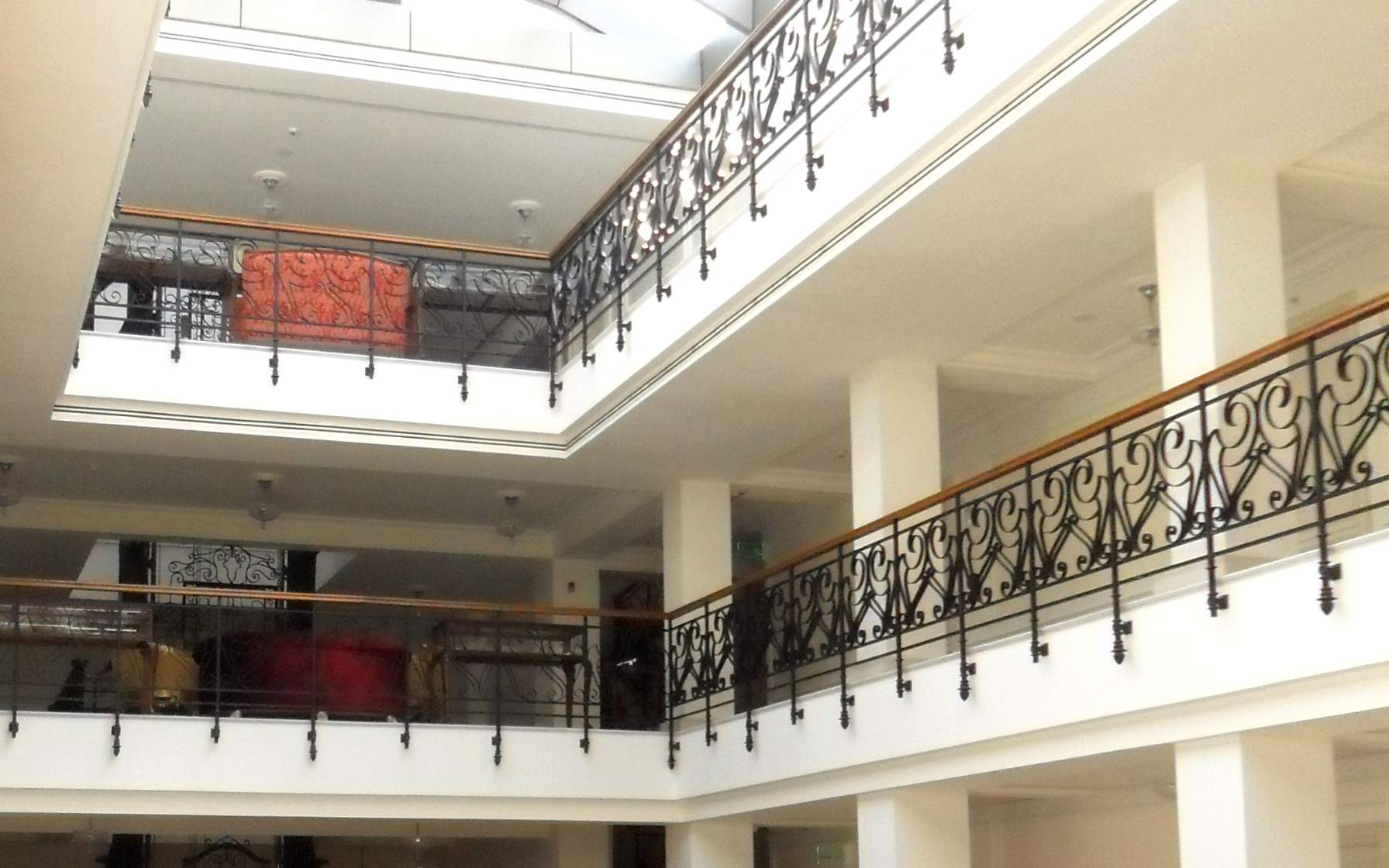 The open space in the Pera Palace Hotel